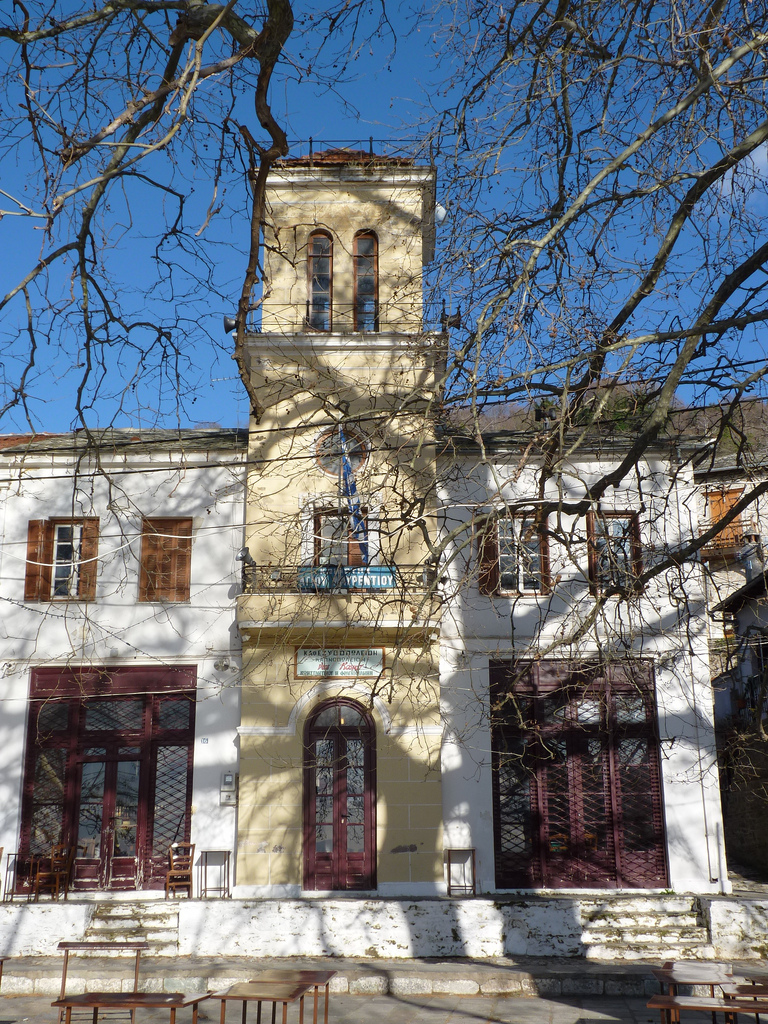 Agios Lavrentions, Magnesia, Greece (Pelion). The old town hall.